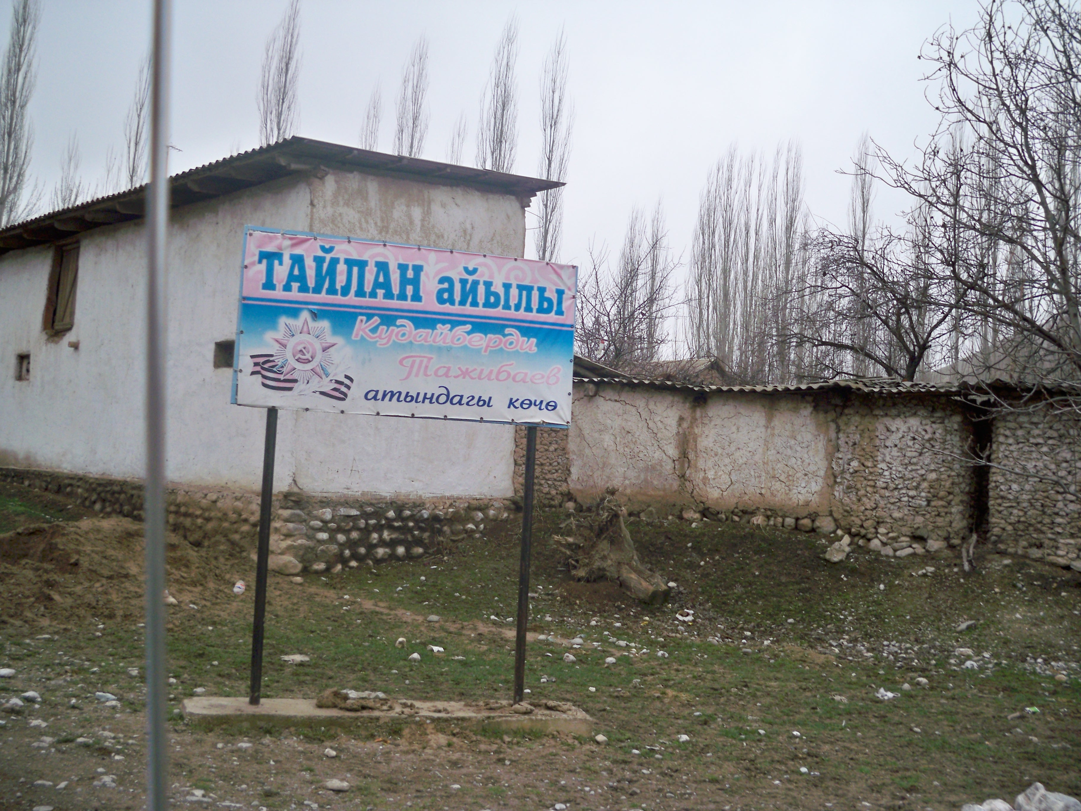 The sign in the northern corner of the village of Taylan. Leilek District, Kyrgyzstan.